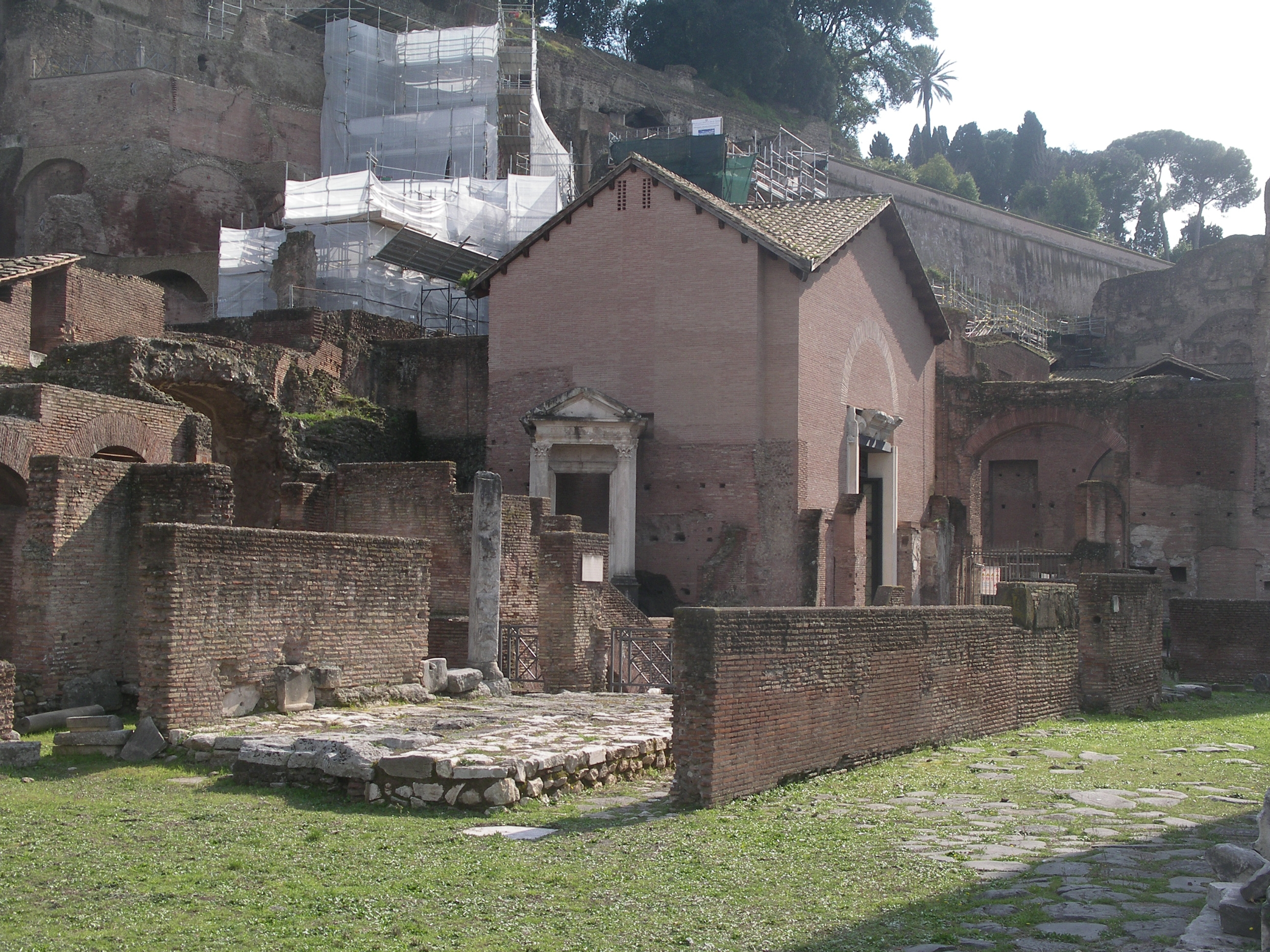 Oratory of the Forty Martyrs, at the Forum of Rome.